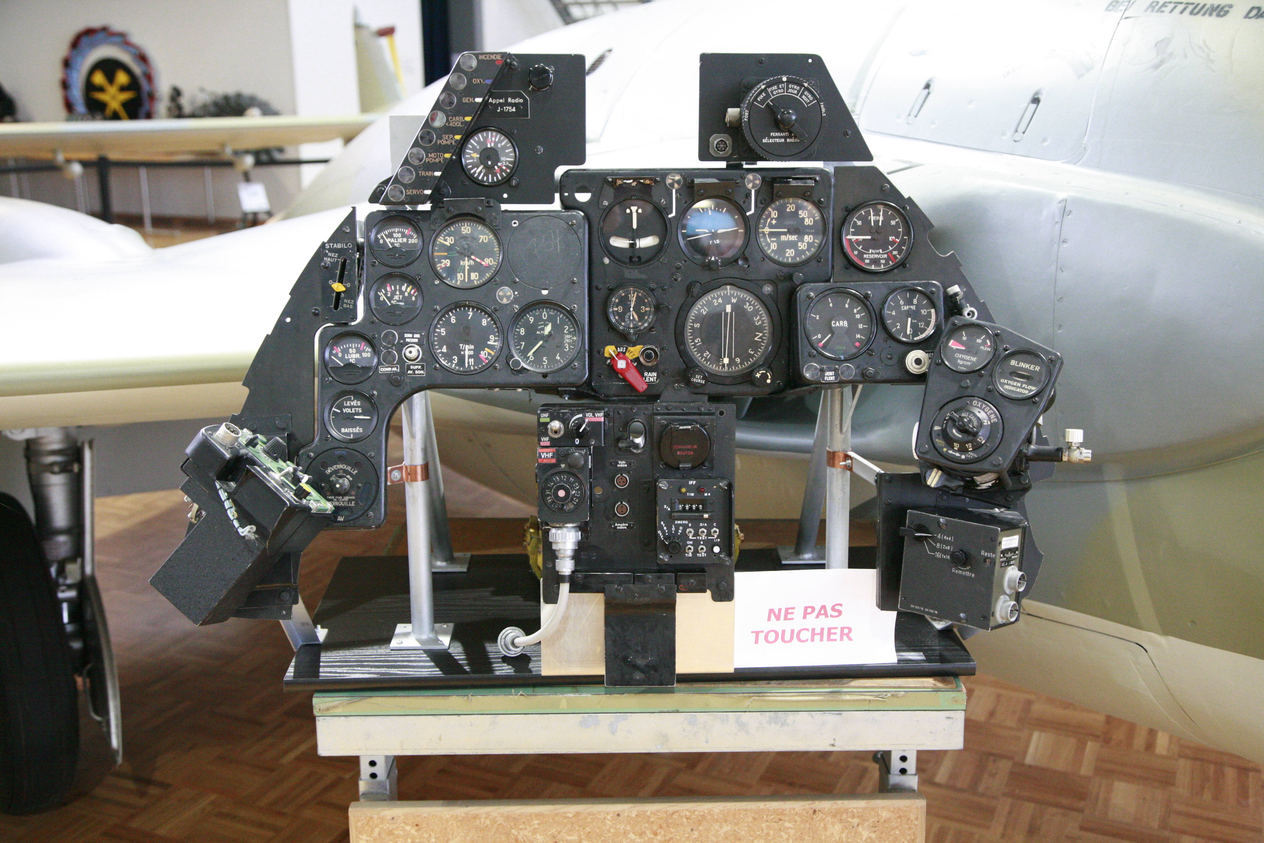 De Havilland Venom of the Swiss Air Force, on display at Payerne Airbase.